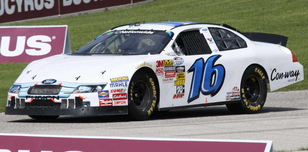 The NASCAR racecar for driver Colin Braun at the 2010 Bucyrus 200 at Road America.